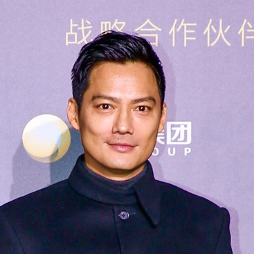 Archie Kao attends Esquire's Man of the Year event, December 14, 2016 in Beijing, China